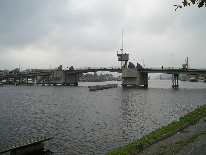 The outlet of the course of Telemark, under the bridges of Porsgrunn.